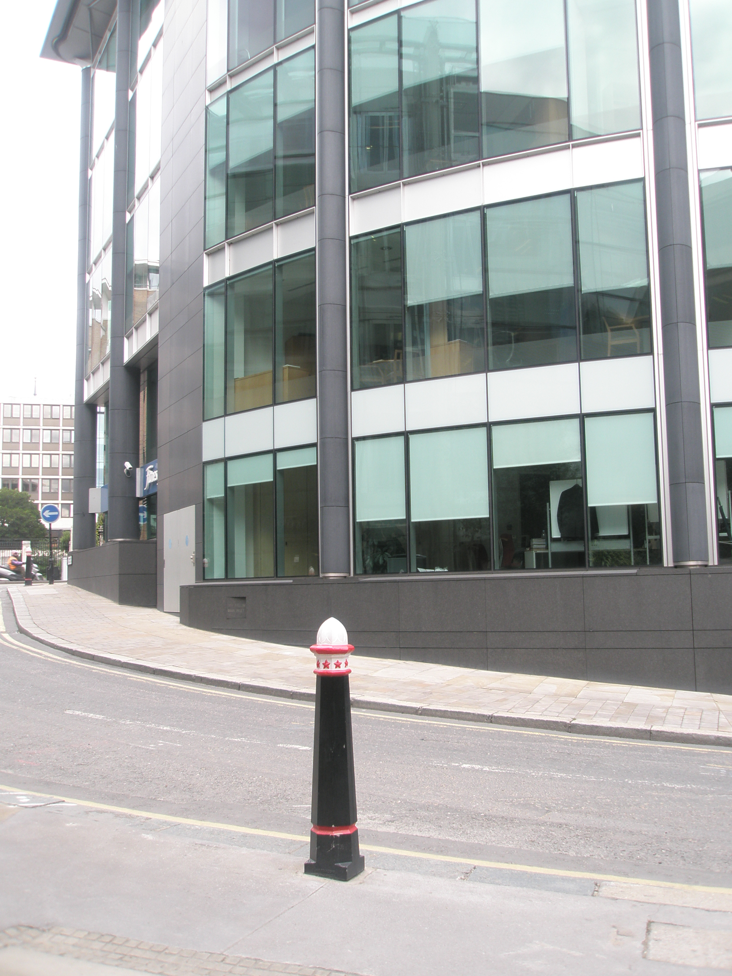 Lambeth Hill